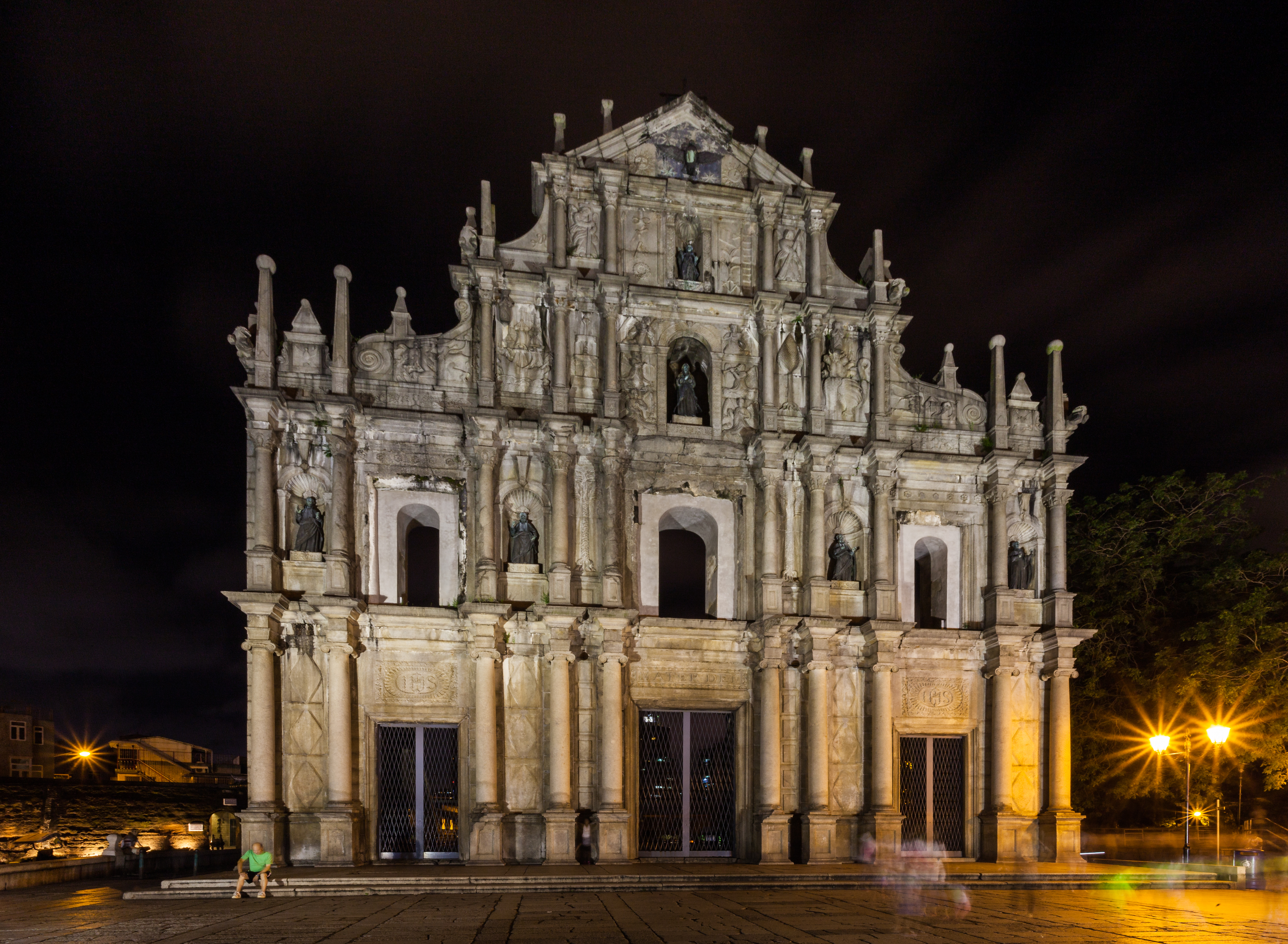 Remains of the Cathedral of Saint Paul, Macau